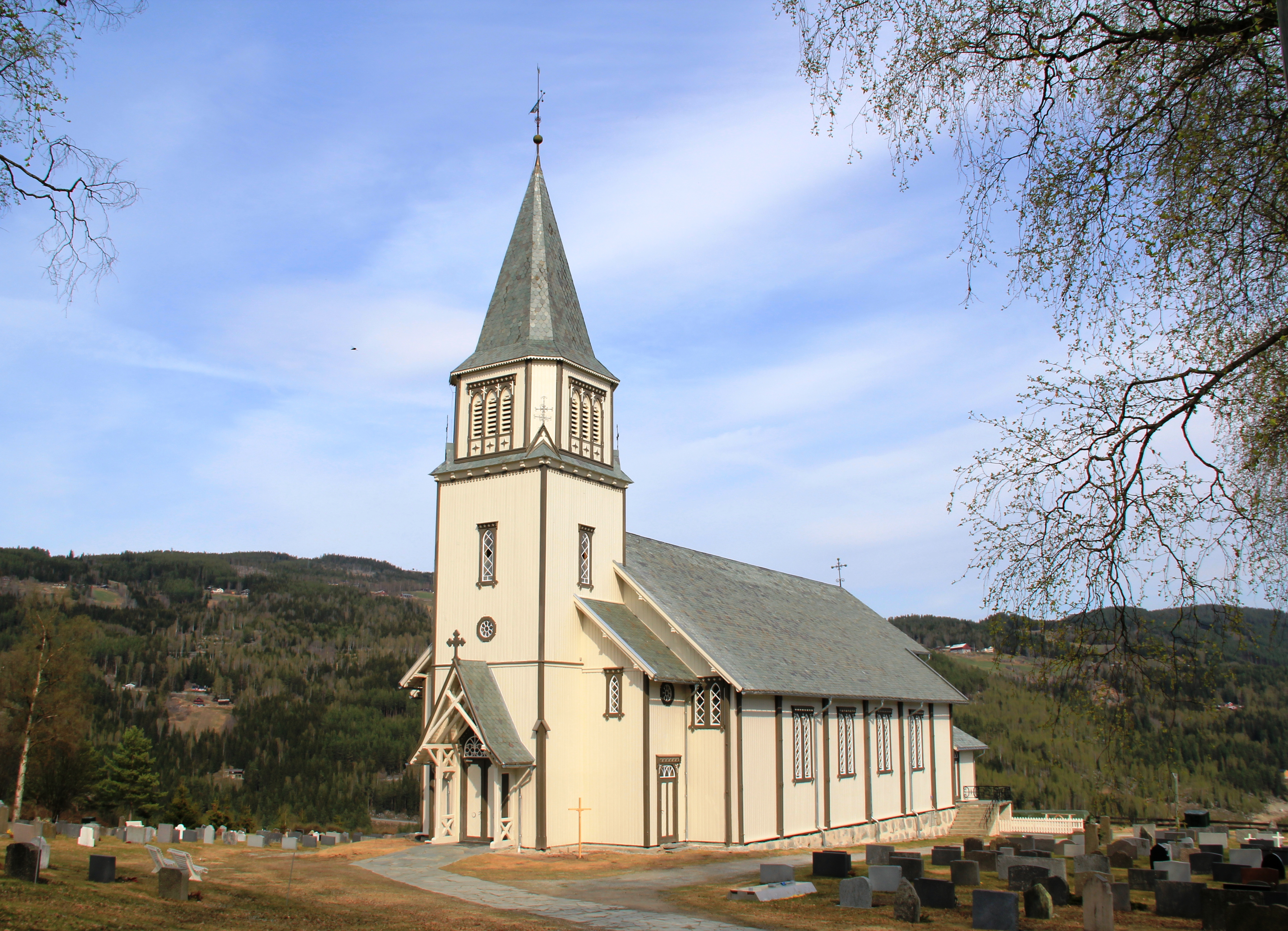 Gol Church